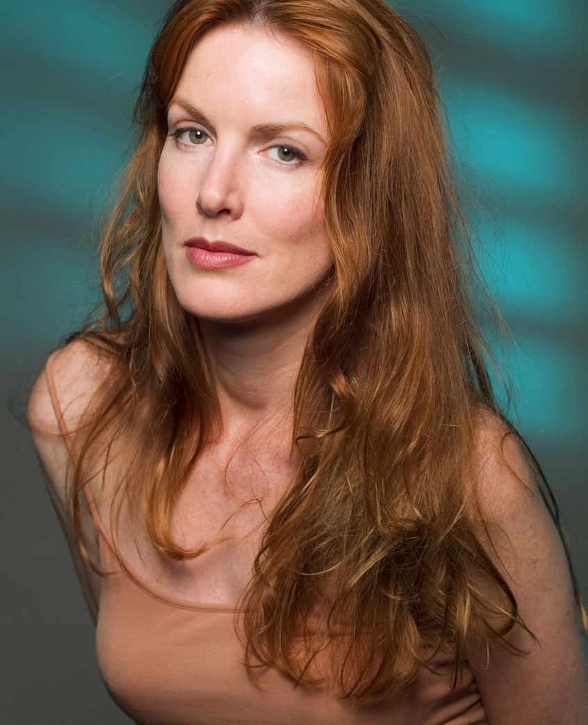 Head shot of actress Kathleen York